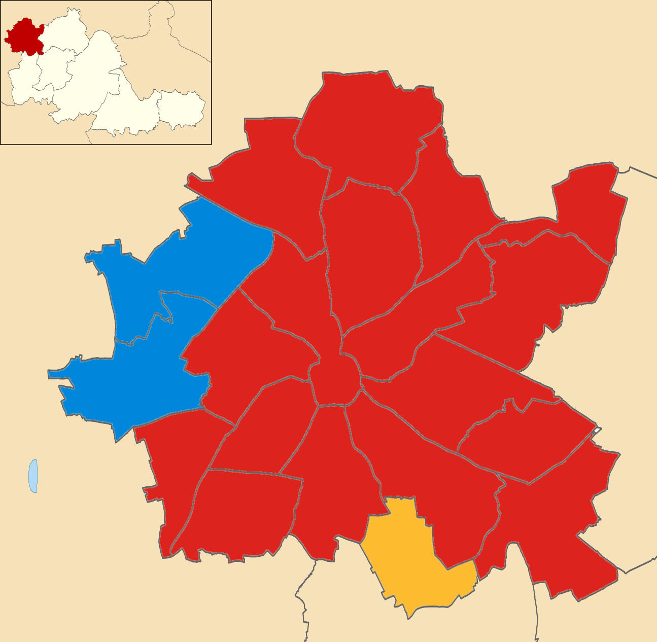 Results of the 2012 local elections in Wolverhampton Colours: Conservative Labour Liberal Democrat